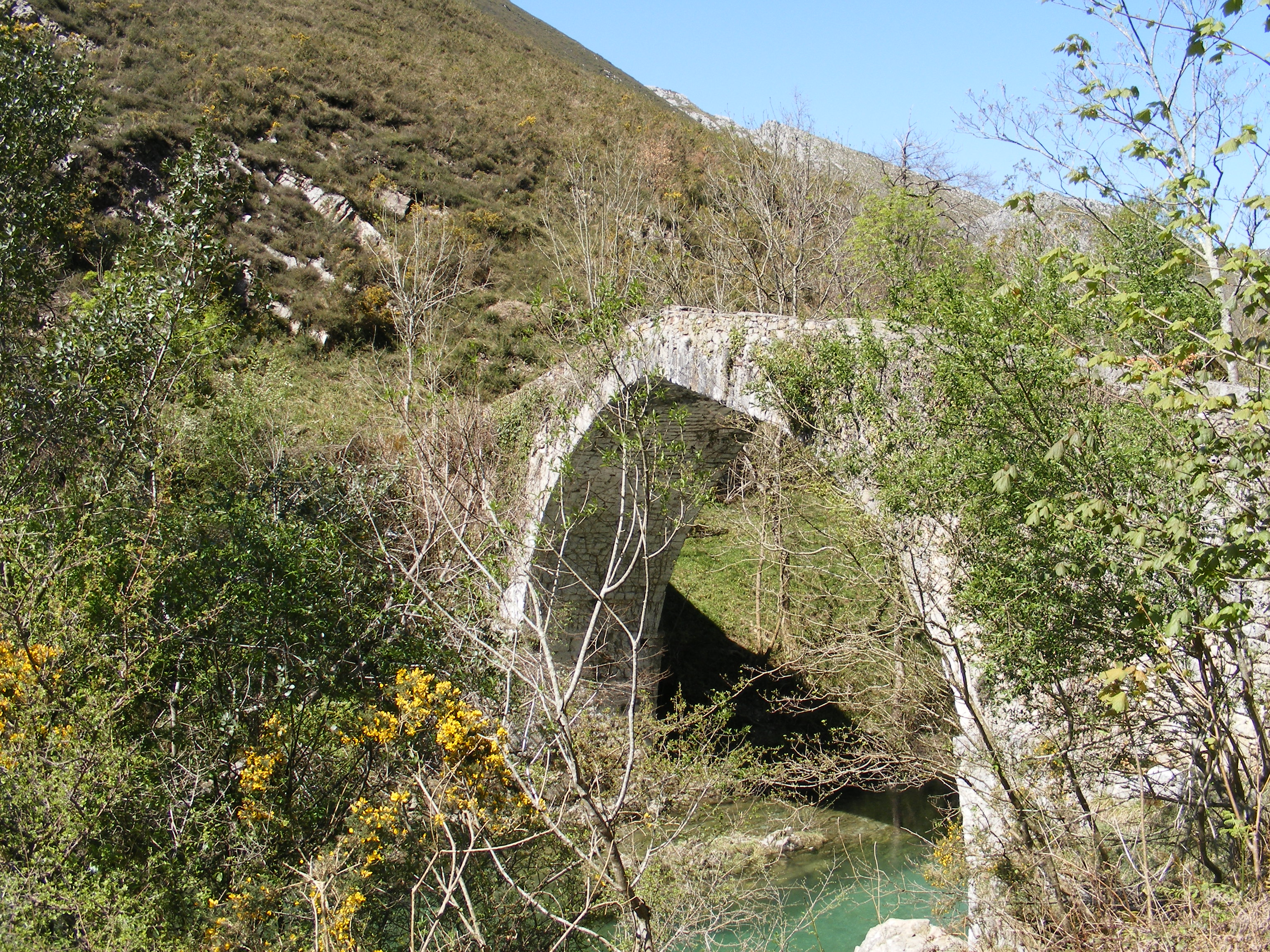 Medieval bridge over the River Dobra. In the District of Amieva, Asturias, Spain.